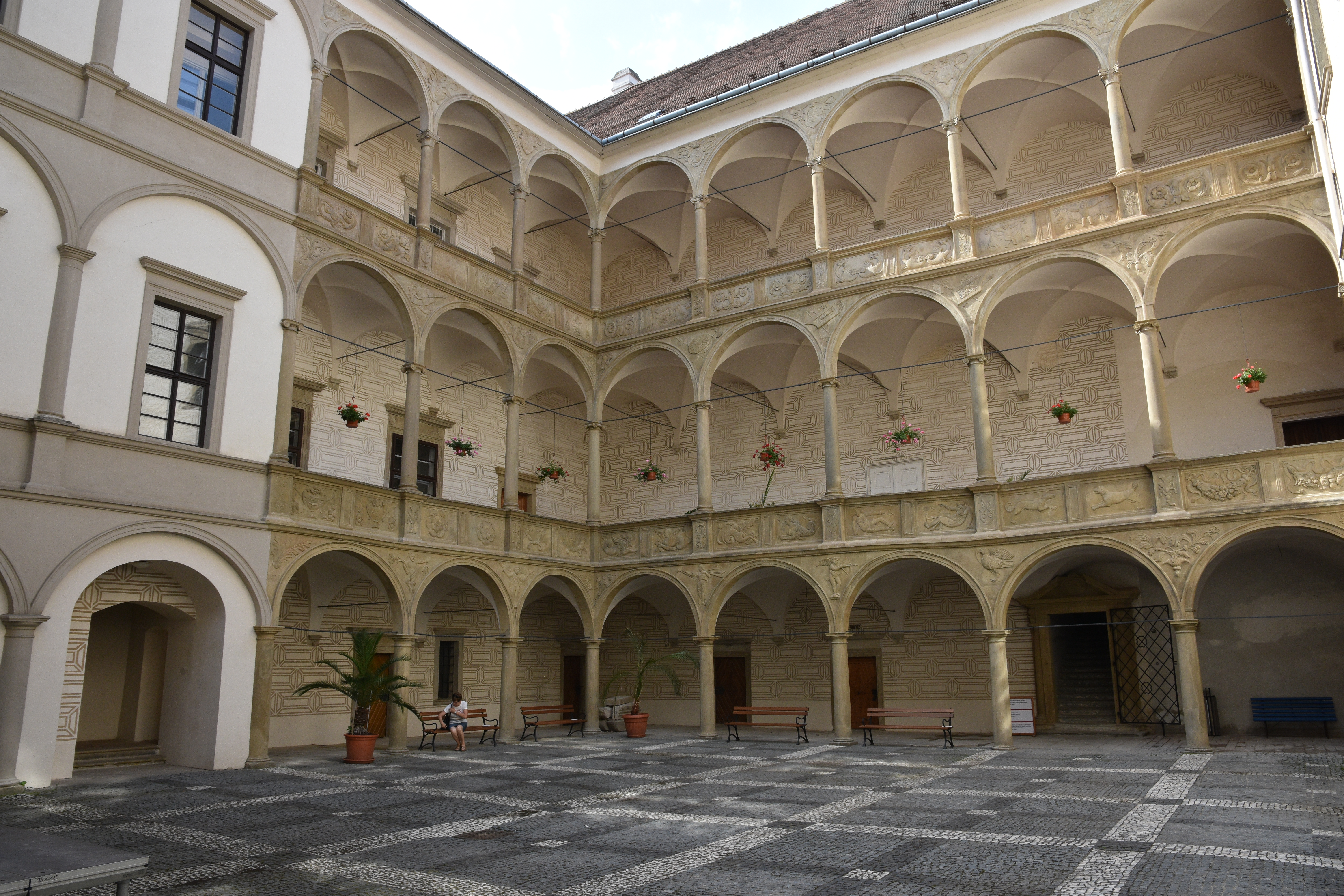 Rosice (castle)